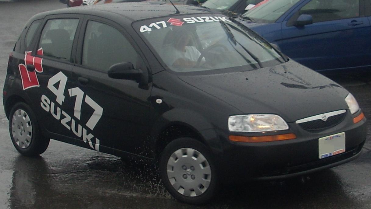 Suzuki Swift+ photographed at the 2009 Sterling Ford Ottawa Auto Show.